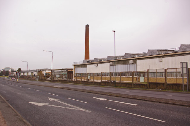 Thales The premises of this major defense/aeronautics/security multinational dominate this stretch of the A23 into Crawley.